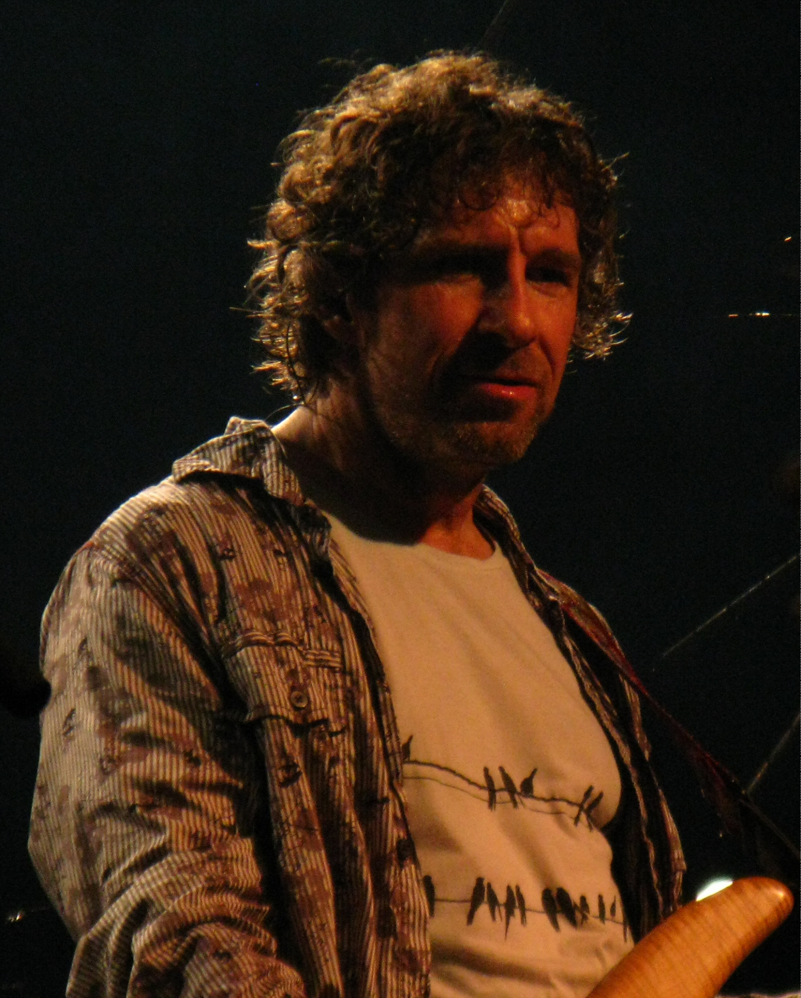 Transatlantic live in Stuttgart in 2010 - Pete Trewavas.